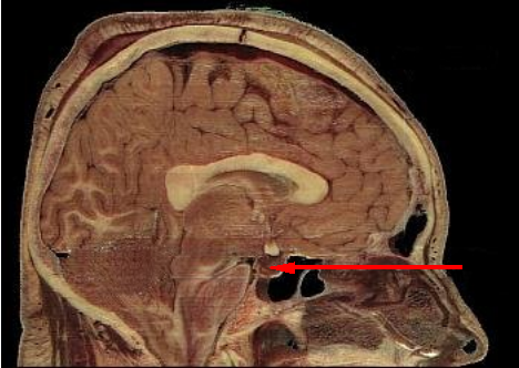 Edited a public domain image found on wikimedia:LocationOfHypothalamus.jpg. Removed clutter and added an arrow pointing to the pituitary gland. Editing done by Jim Thomas using The Gimp.